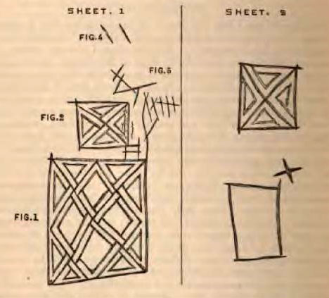 This is a screen-grab from a scanned public domain journal on (Proceedings of the Royal Irish Academy, vol. X, 1870, p. 396), cropped to a woodcutting illustration. Illustration shows celtic designs inscribed in Gillie's Hole, Co. Fermanagh, Northern Ireland.